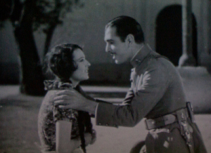 The National Film Conaculta honors actress Lupita Tovar Oaxaca